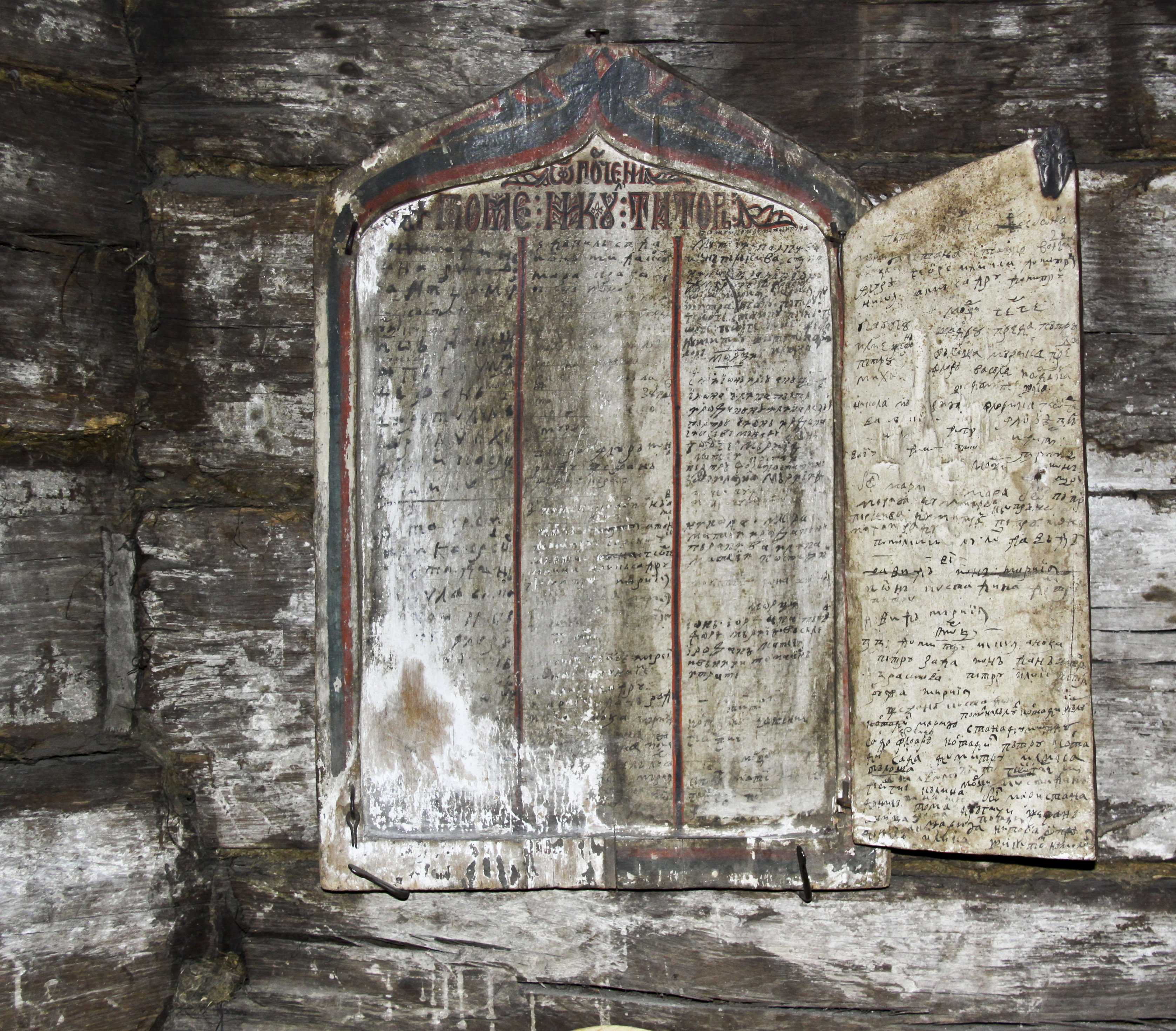 Craiova, Dolj county, Romania, the wooden church at the Mitropolitan seat, brought from Gorj county: the chancel.